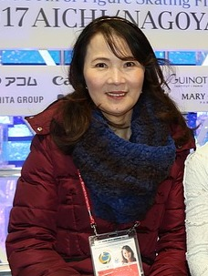 Satoko Miyahara, Mie Hamada and Yamato Tamura at the 2017 Grand Prix Final